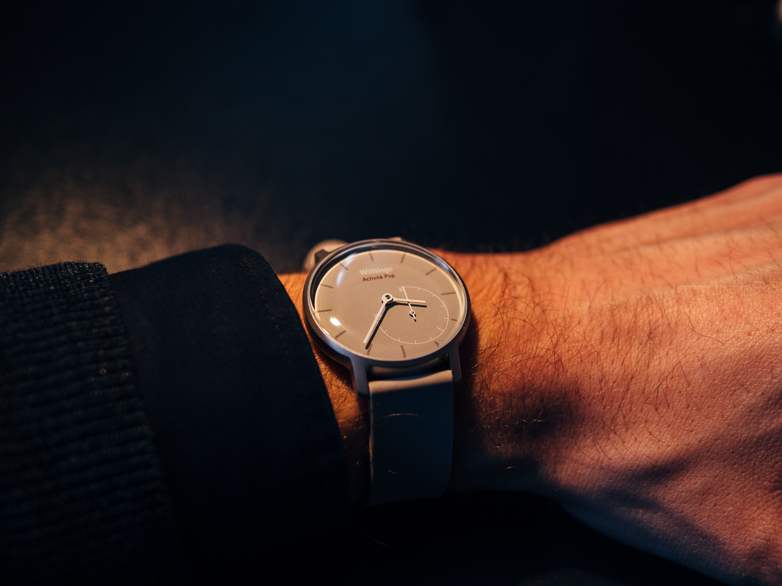 Withings Activité Pop